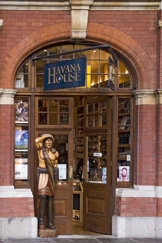 Chief Heckawi a modern version of storefront figures which lost favour circa 1900. This Chief advertises outside his traditional shop in Windsor, UK WyrdLight-McCallum